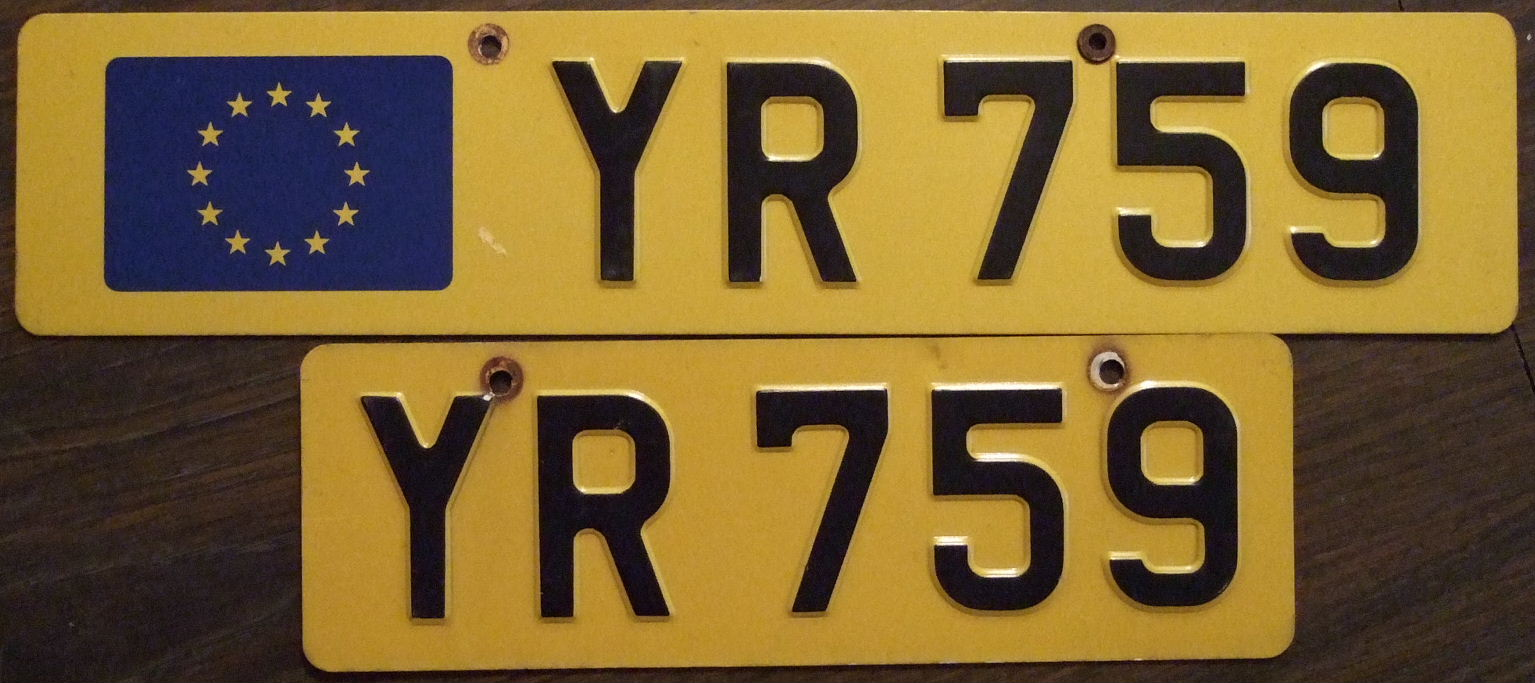 A Luxembourg EEC license plate pair. the front plate has only the number the rear has the EEC flag.